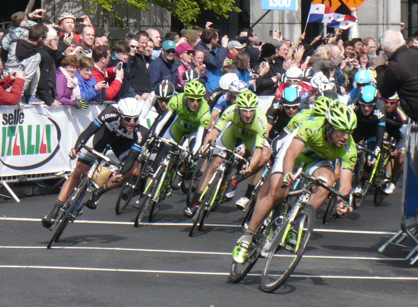 Pack leaders entering Dublin's Memorial Bridge during the third stage of the Giro d'Italia; May 11th, 2014